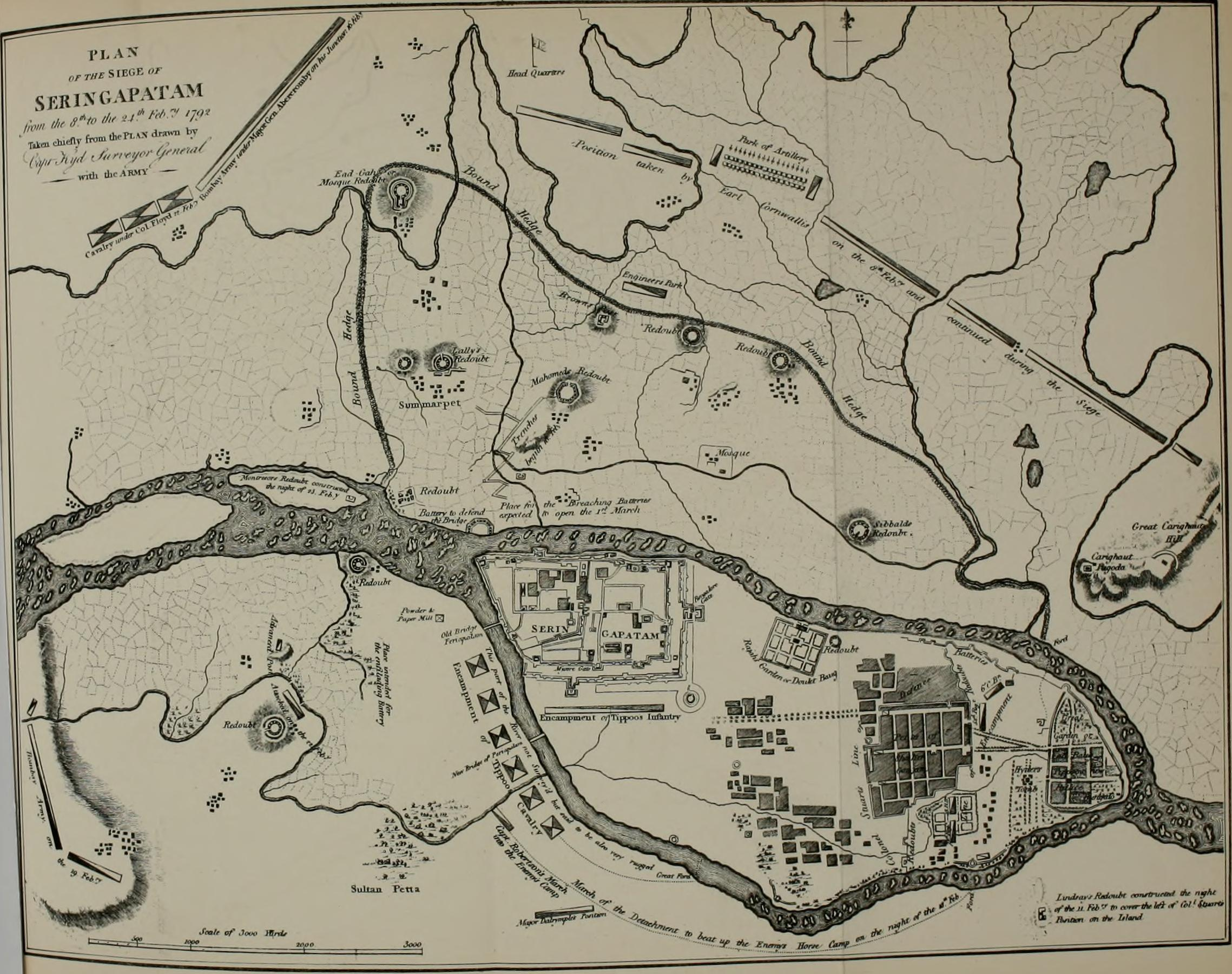 Plan of the Siege of Seringapatam, 8–24 February 1792.